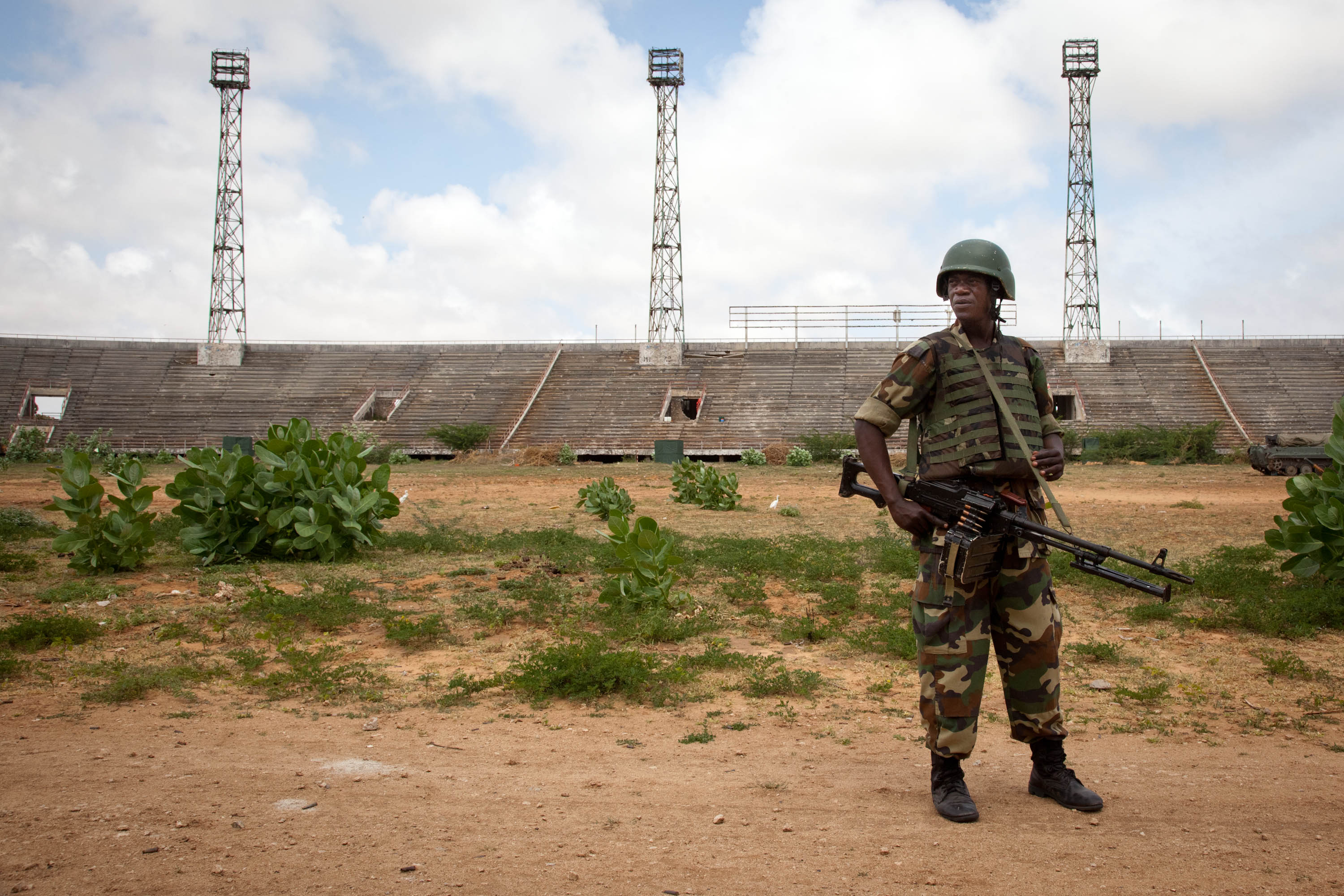 08/09/11- Mogadishu, Somalia - AMISOM Troops stand in Mogadishu stadium, the former al-Shabaab headquarters. Al-Shabaab withdrew from Mogadishu on the 6th August 2011. Press Handout - AU/UN IST/ANTHONY HUNT